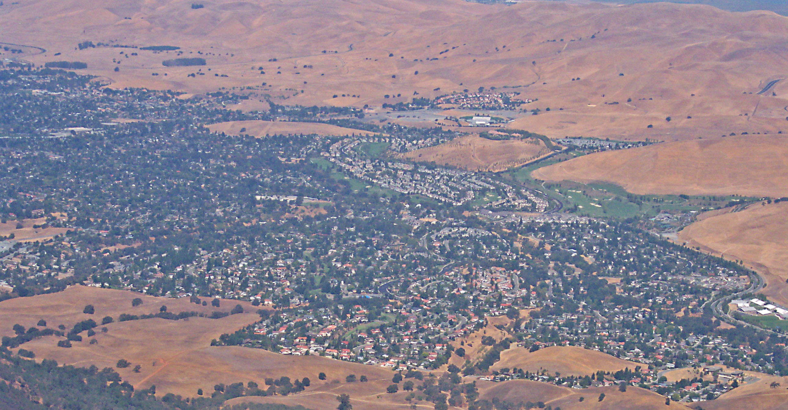 Parts of Clayton, California as seen from the summit of Mount Diablo